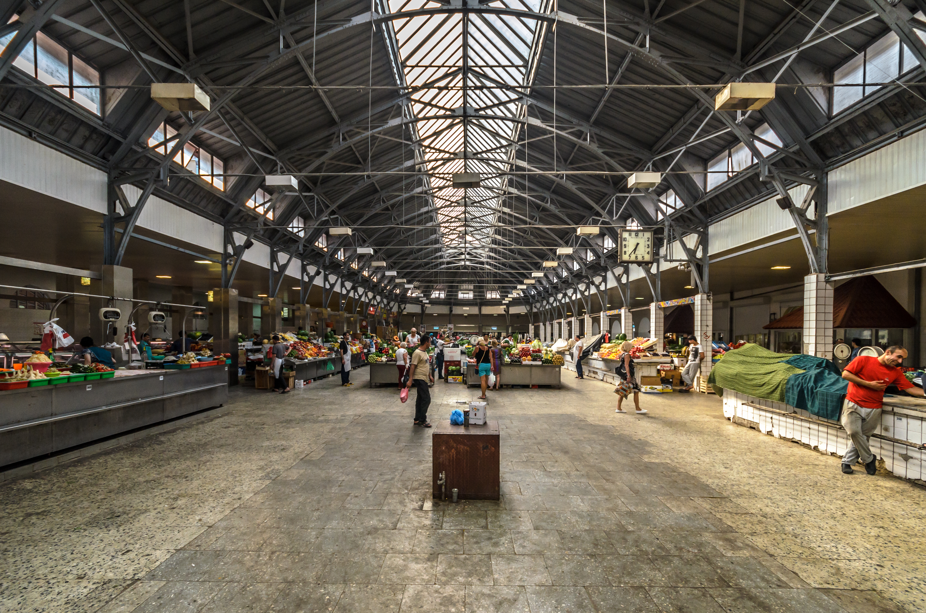 Kuznechny Market in Saint Petersburg